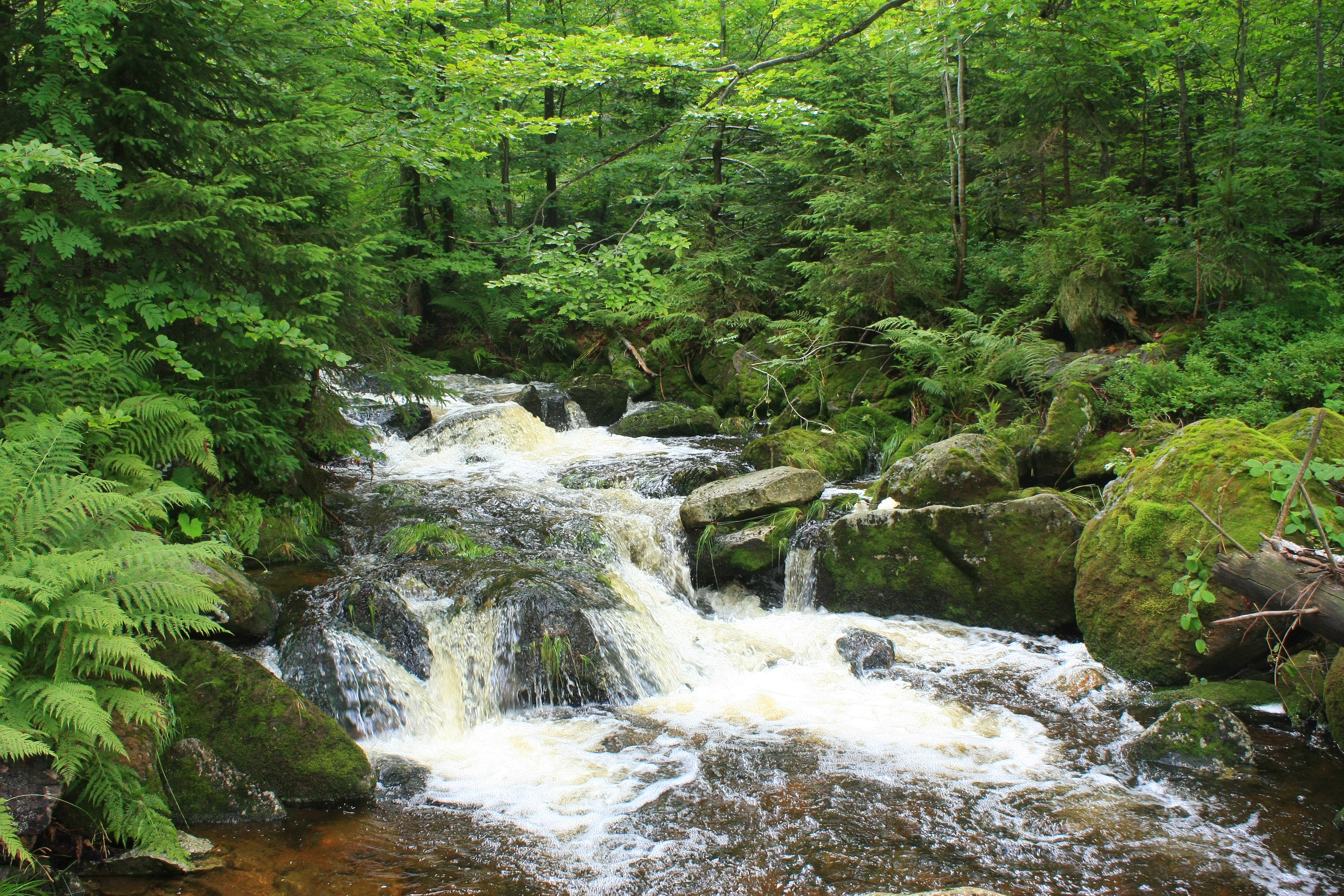 Kleine Ohe in the Nationalpark Bavarian Forest